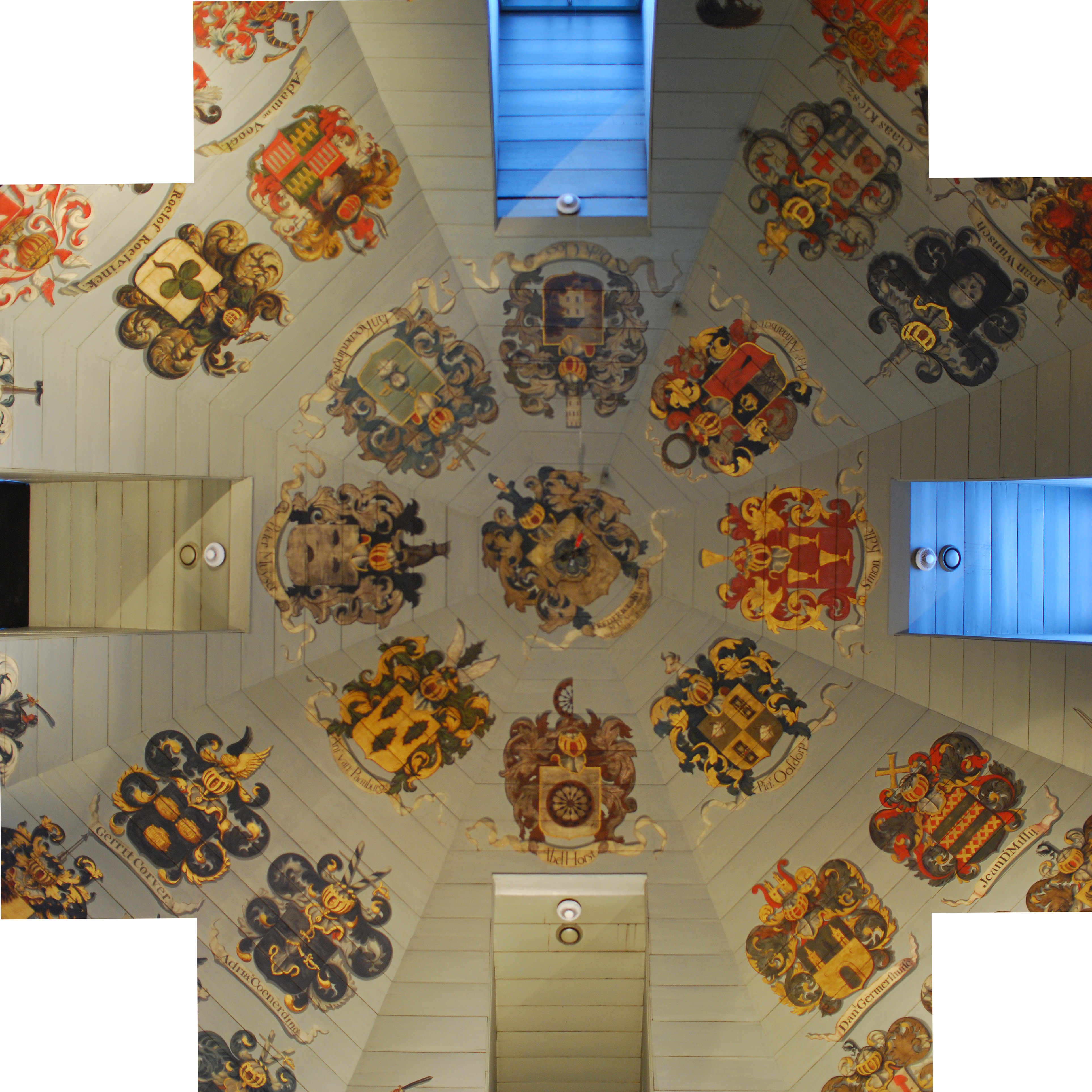 photo of the panting covering the ceiling of the theatrum anatomicum of the Waag in Amsterdam, Netherlands. the illustrations are the family emblems of families that belonged to the surgeons guild.